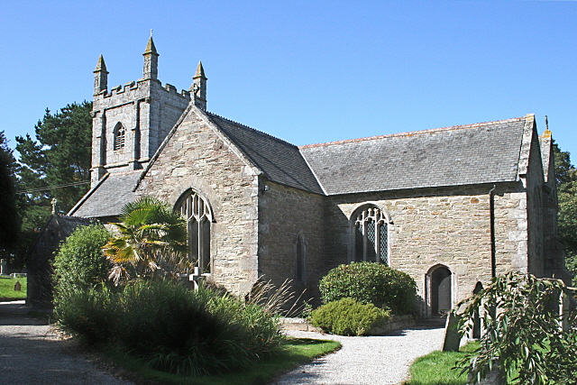 Perranzabuloe Parish Church This church was dedicated to St Piran on 18th July 1805.